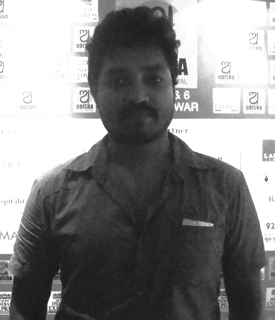 Susant Mani is an Odia-language film director and choreographer. ଓଡ଼ିଆ: ସୁଶାନ୍ତ ମଣି ଜଣେ ଓଡ଼ିଆ ସିନେ ନିର୍ଦ୍ଦେଶକ ଓ ନୃତ୍ୟ ନିର୍ଦ୍ଦେଶକ ।